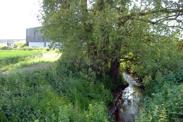 Sales Brook at Salesbrook Farm, Newhall. Sales Brook runs into the larger Barnett Brook a little to the south-east, the latter soon running into the infant River Weaver. The stream banks provide a miniature eco-system amidst the intensively cultivated land - here there are wheat fields to either side.